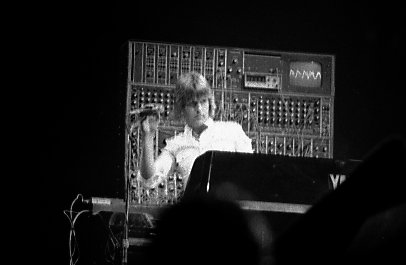 Maple Leaf Gardens, Toronto, Feb. 3, 1978 Moog modular Yamaha GX-1